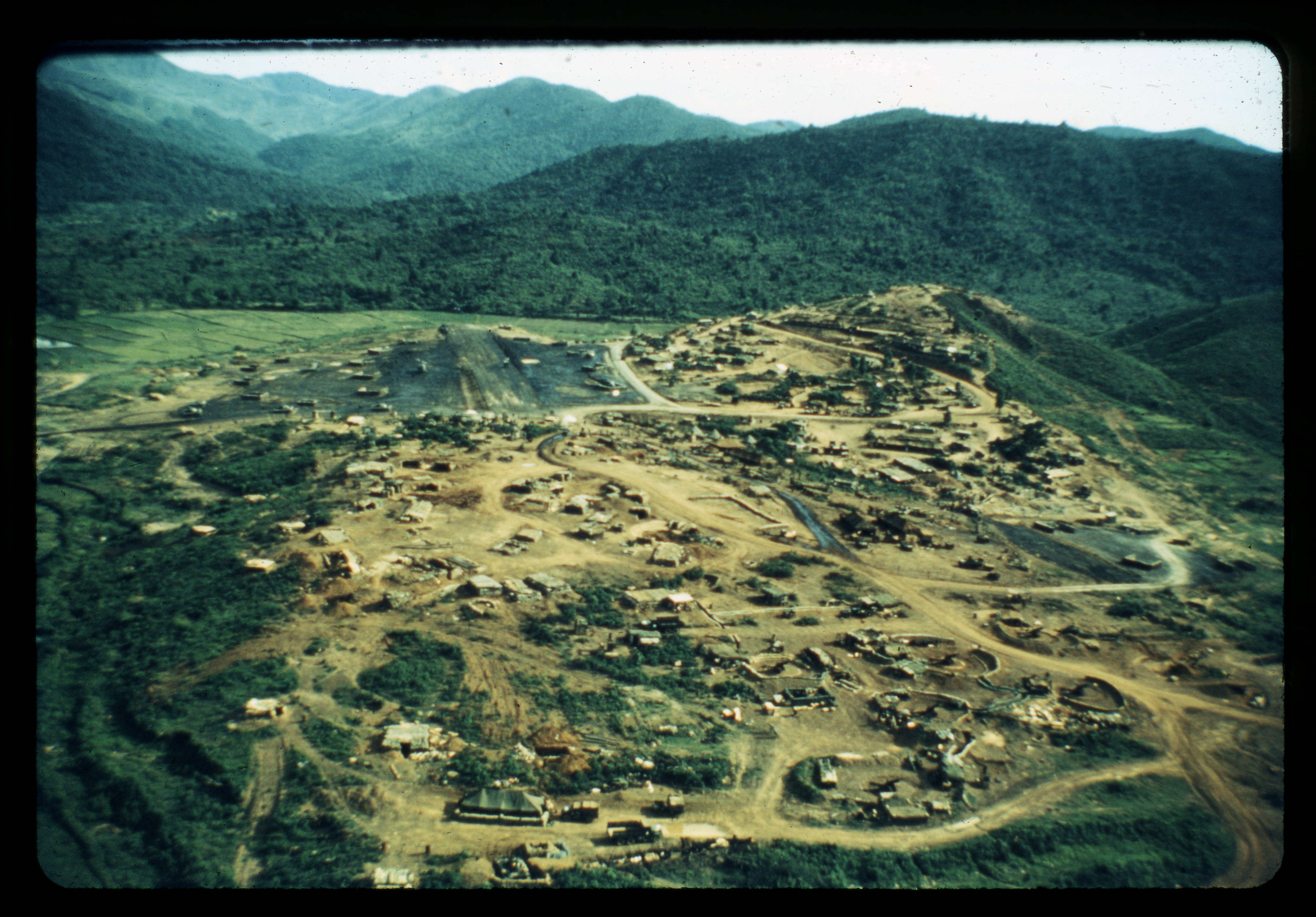 LZ Pony, an operating base of the 1st Cavalry Division in eastern Binh Dinh Province